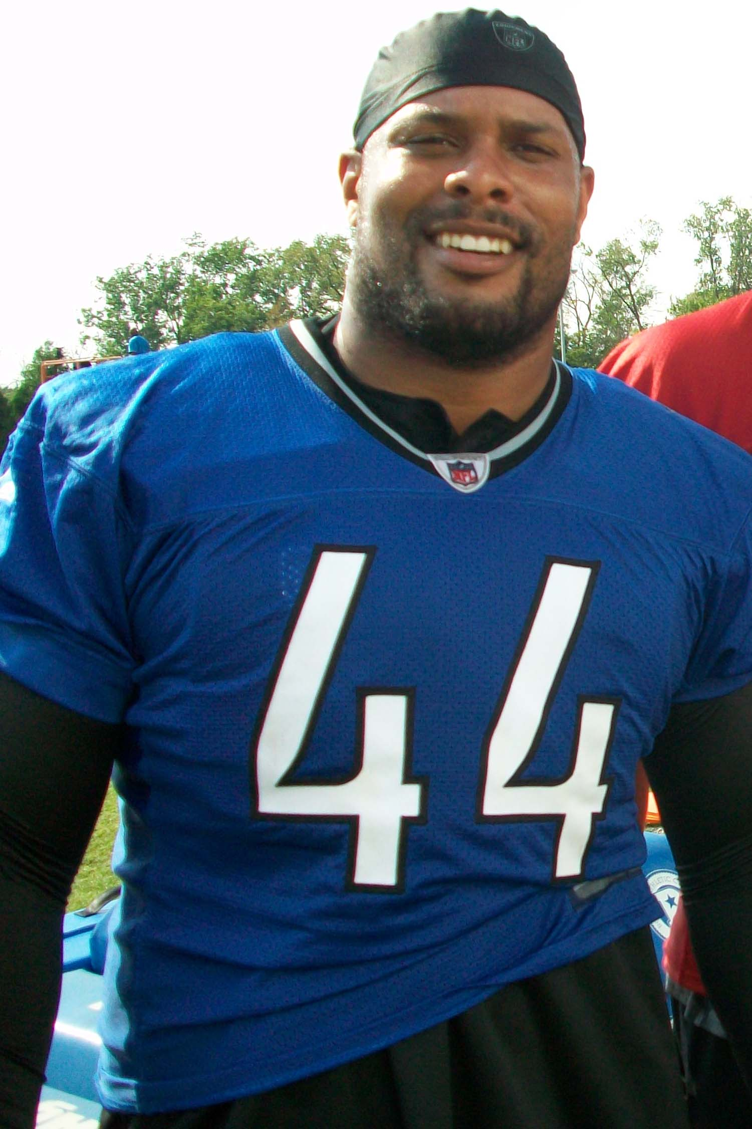 Terrelle Smith in 2009. This file has been extracted from another file: Terelle Smith & Matt Stafford with fan.jpg